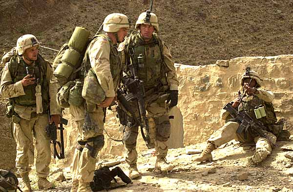 On June 02 2002 Phase III of Operation Mountain Lion continues. Here soldiers from B Company 2-187 Infantry 101st Airborne Division (Air Assault) perform their sensitive sites exploitation (SSE) in a village near the Pakistan border. (US Army photo by SGT Ronald Mitchell) (Released)